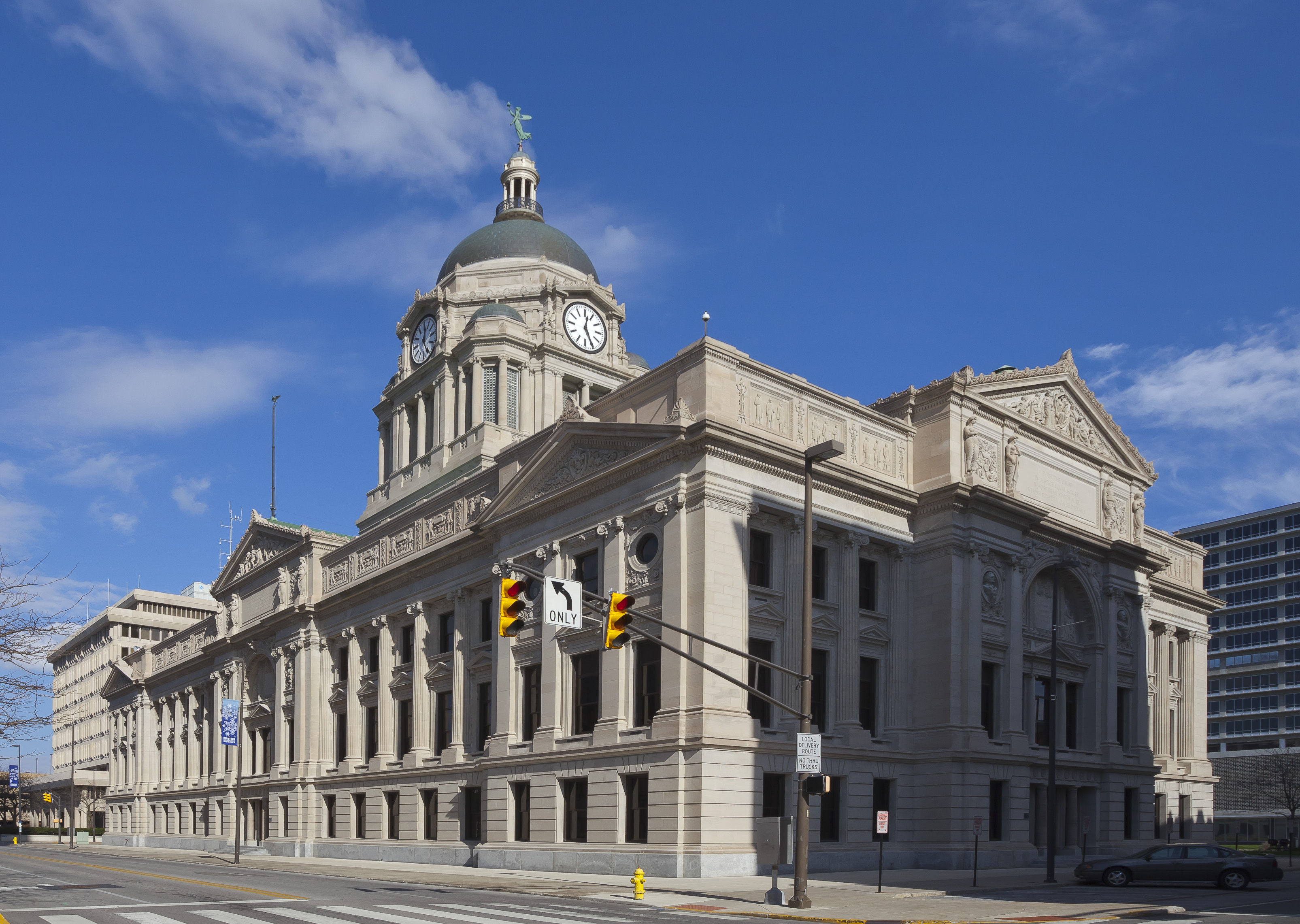 Allen County Courthouse, Fort Wayne, Indiana, USA